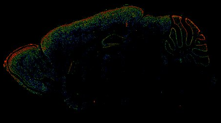 Experiment 73424495. Tnrc18 - RP_051019_04_A01 - sagittal. In situ hybridization (expression) image of TNRC18 gene. This image is provided by the Allen Brain Atlas. Image credit: Allen Institute. 2020